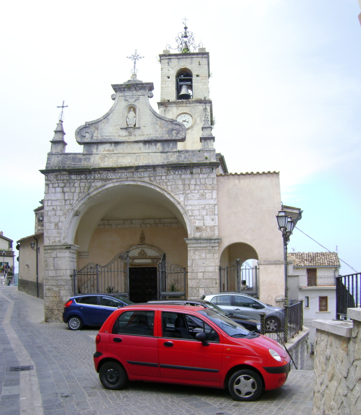 The church of San Nicola in Pretoro, in the province of Chieti, Abruzzo